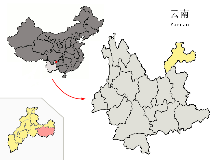 Location of Zhenxiong County (pink) and Zhaotong Prefecture (yellow) within Yunnan province of China Map drawn in september 2007 using various sources, mainly : Yunnan province administrative regions GIS data: 1:1M, County level, 1990 Yunnan Counties map from Zhaotong Prefecture administrative map from .au